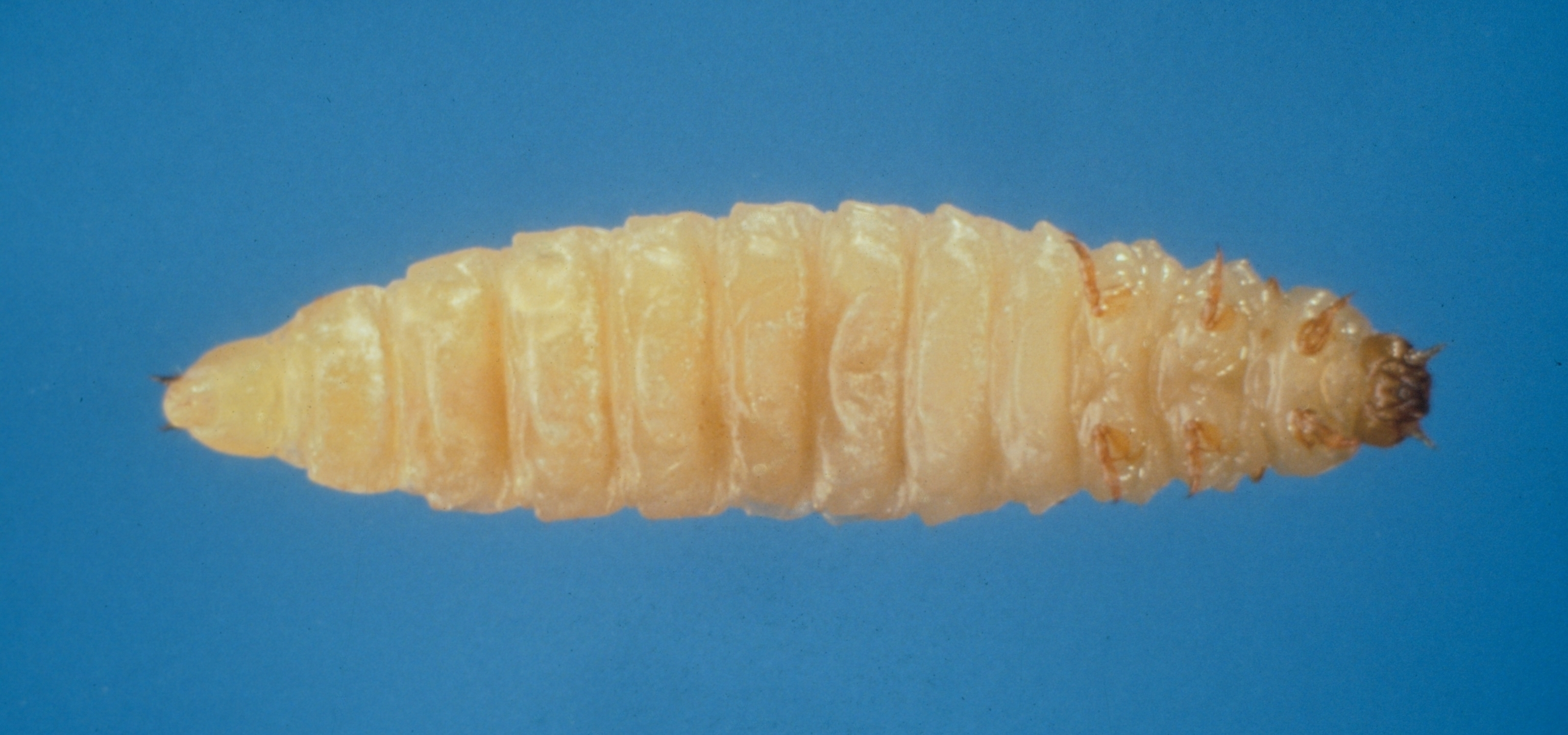 Aethina tumida Common Name: small hive beetle Photographer: Jeffrey W. Lotz, Florida Department of Agriculture and Consumer Services, United States Descriptor: Larva(e) Image taken in: Florida, United States